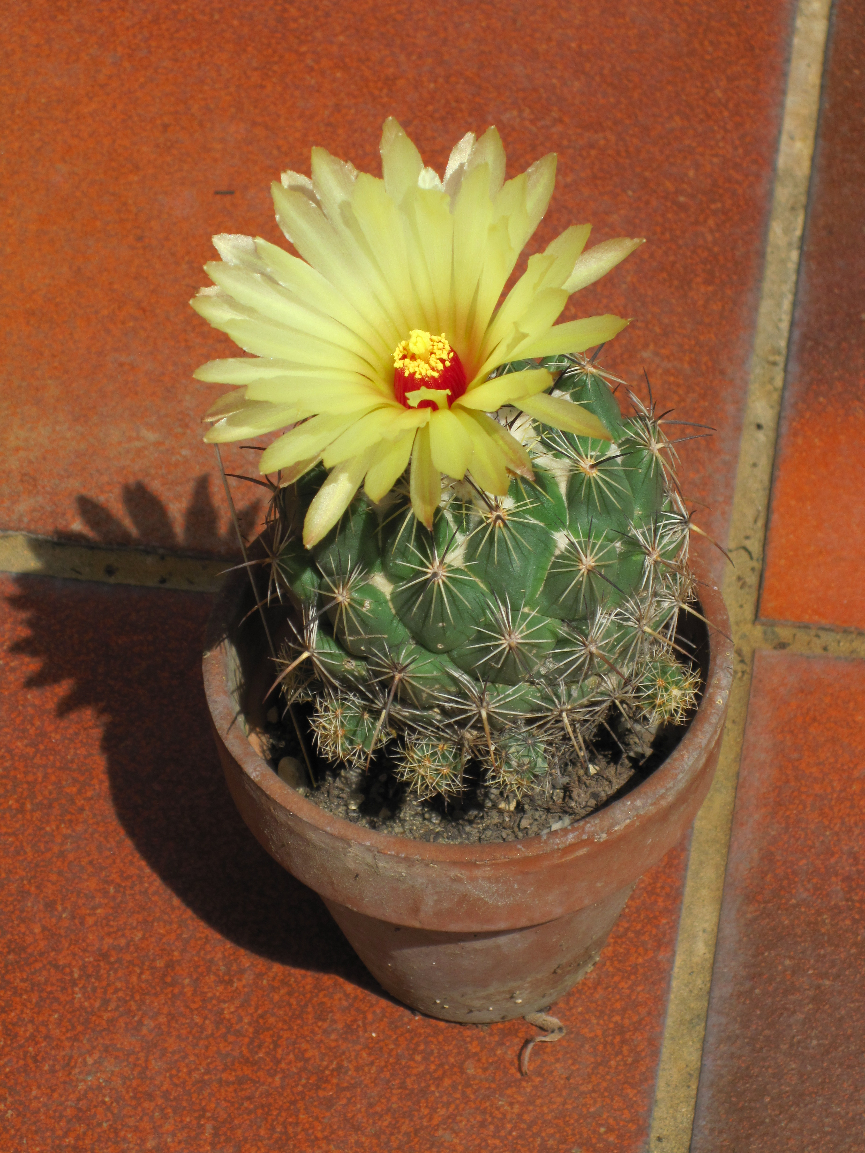 Coryphanta palmeri in flower